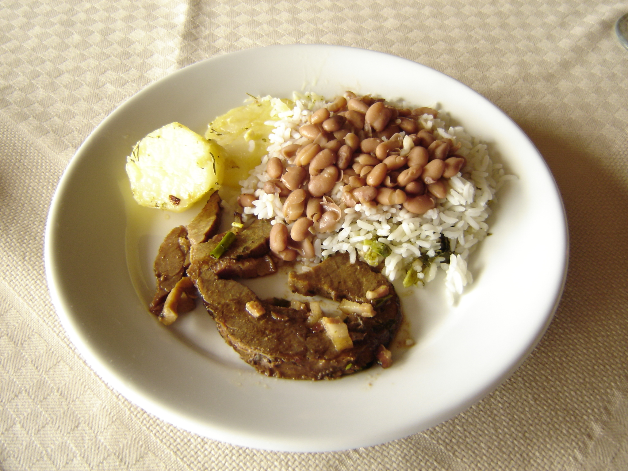 Rice, beans, meat and potatoes, as served in a hotel in southeast Brazil countryside.